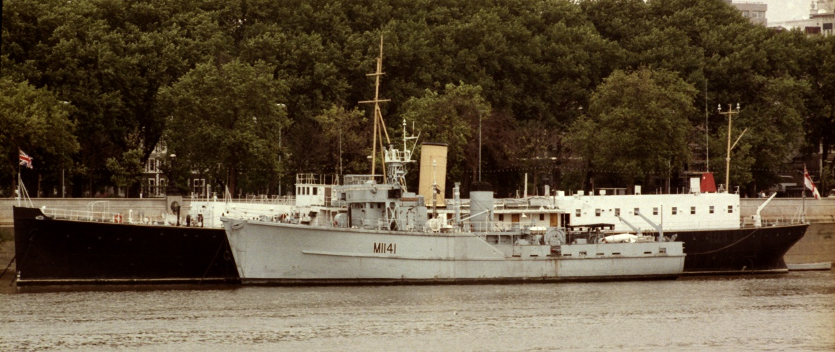 HMS Glasserton (M1141), a Ton class minesweeper, moored next to HMS Chrysanthemum on the Thames (1987).